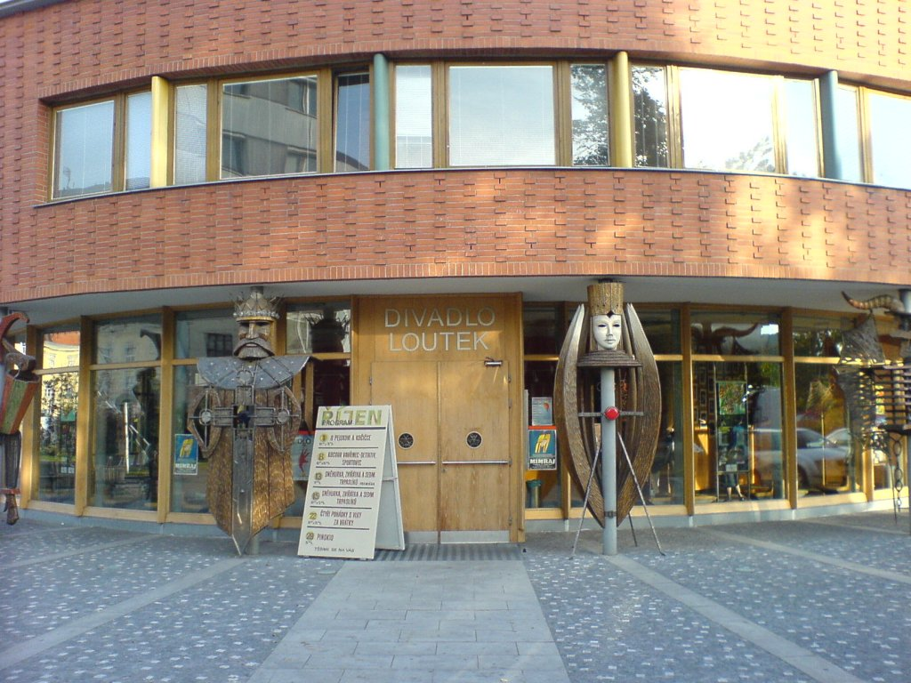 Puppet Theatre of Ostrava.